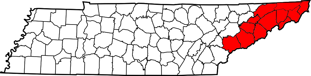 The State of Franklin (1784-1790) over a county map of Tennessee. State of Franklin was composed of the modern Tennessee counties of: Blount County, Tennessee Carter County, Tennessee Cocke County, Tennessee Greene County, Tennessee Hamblen County, Tennessee Hawkins County, Tennessee Jefferson County, Tennessee Johnson County, Tennessee Sevier County, Tennessee Sullivan County, Tennessee Unicoi County, Tennessee Washington County, Tennessee